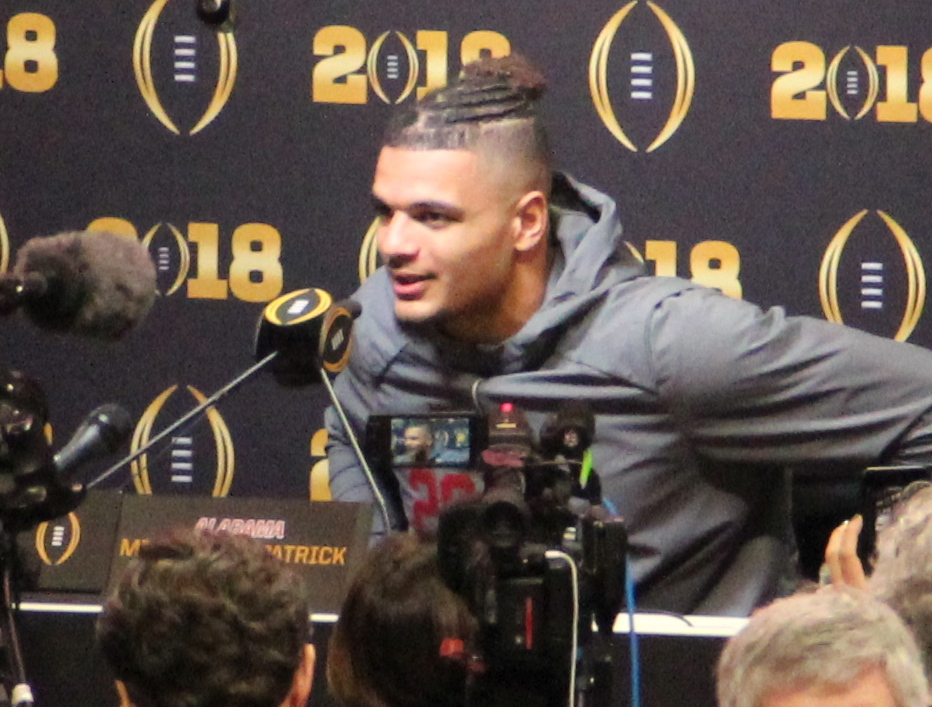 Minkah Fitzpatrick in 2018